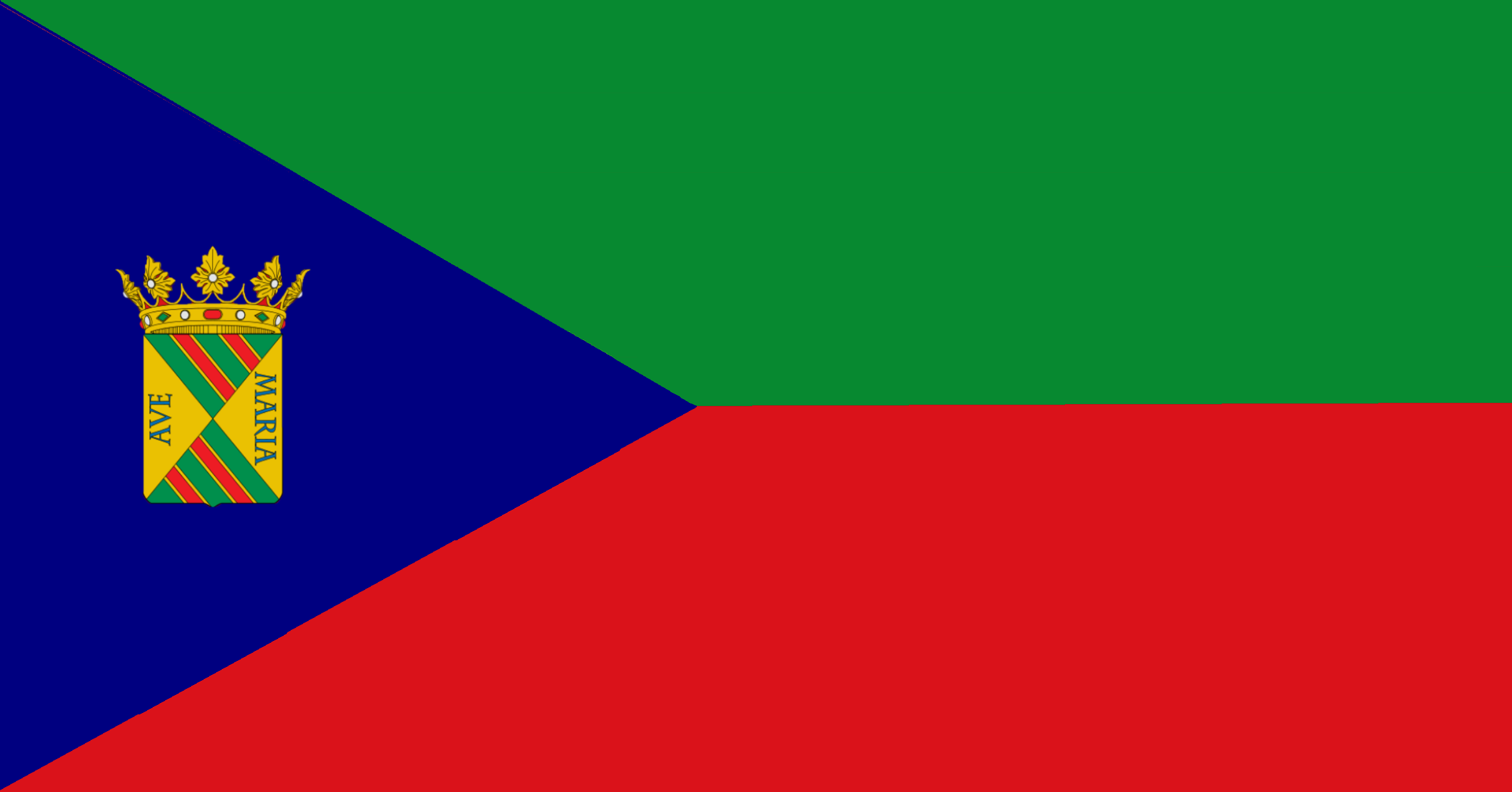 Flag of Sierrapando, Cantabria.